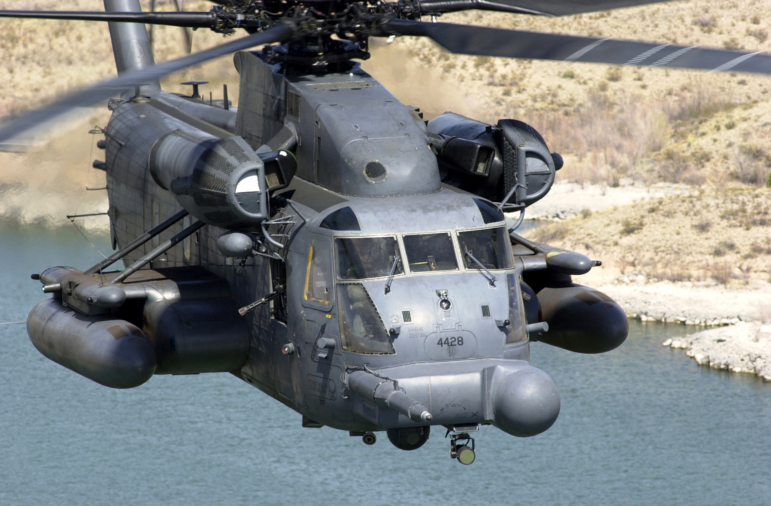 A 58th Special Operations Wing, 551st Special Operations Squadron, MH-53J Pave Low IIIE flies a training mission. The MH-53J Pave Low IIIE heavy-lift helicopter is the largest, most powerful and technologically advanced helicopter in the Air Force inventory. The terrain-following and terrain-avoidance radar, forward-looking infrared sensor, inertial navigation system with global positioning system, along with a projected map display enable the crew to follow terrain contours and avoid obstacles, making low-level penetration possible.